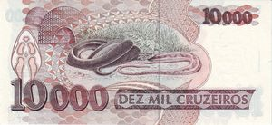 10000 cruzeiros